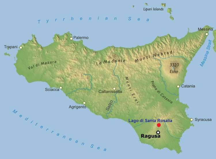 Map of location of the lake/Lago di Santa Rosalia, near Ragusa in Sicily.